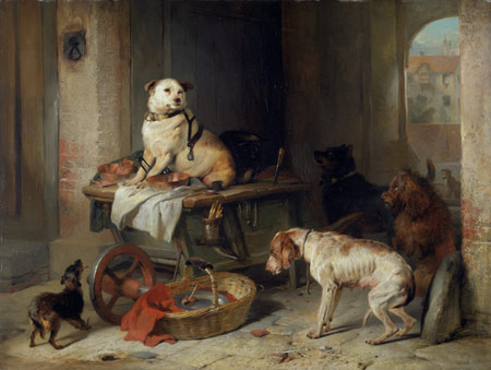 "A Jack In Office". The title "A Jack In Office" is a slang expression for a pompous government official. This painting of a Bull and Terrier positioned on the table, reflects the characterisic of the sovereignty of this dog as "boss of the pack." The King enthroned over his submissive subjects, an expression of the supremacy of this dog breed during the 1800s.